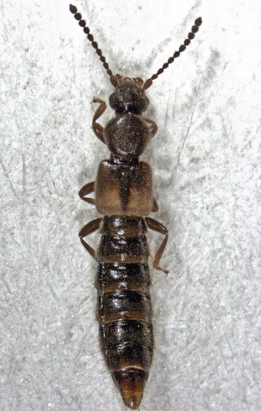 adult male Teropalpus coloratus